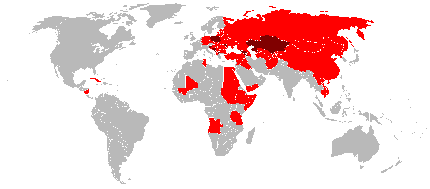 World map of Antonov An-2 operators